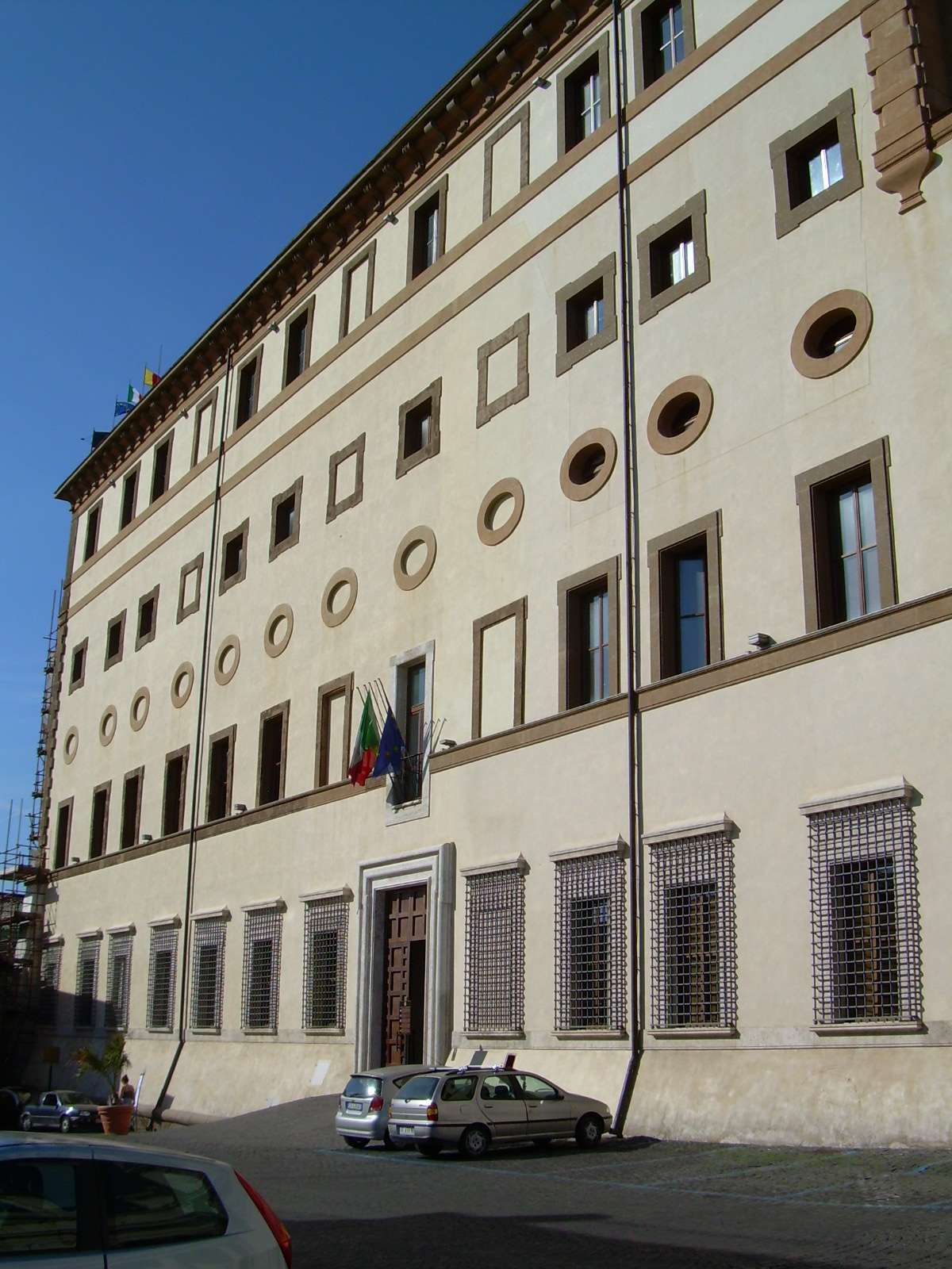 Palazzo Doria, Valmontone